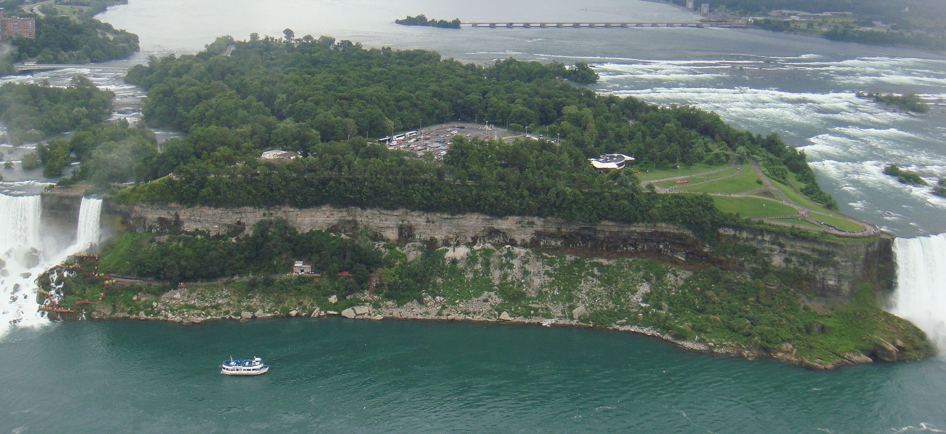 Goat Island, New York from Skylon Tower.